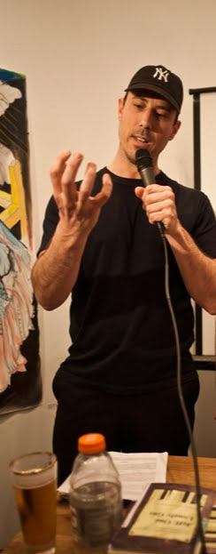 Author Jeff Ragsdale speaking at 92 Y in New York City for launch of his book, "Jeff, One Lonely Guy".